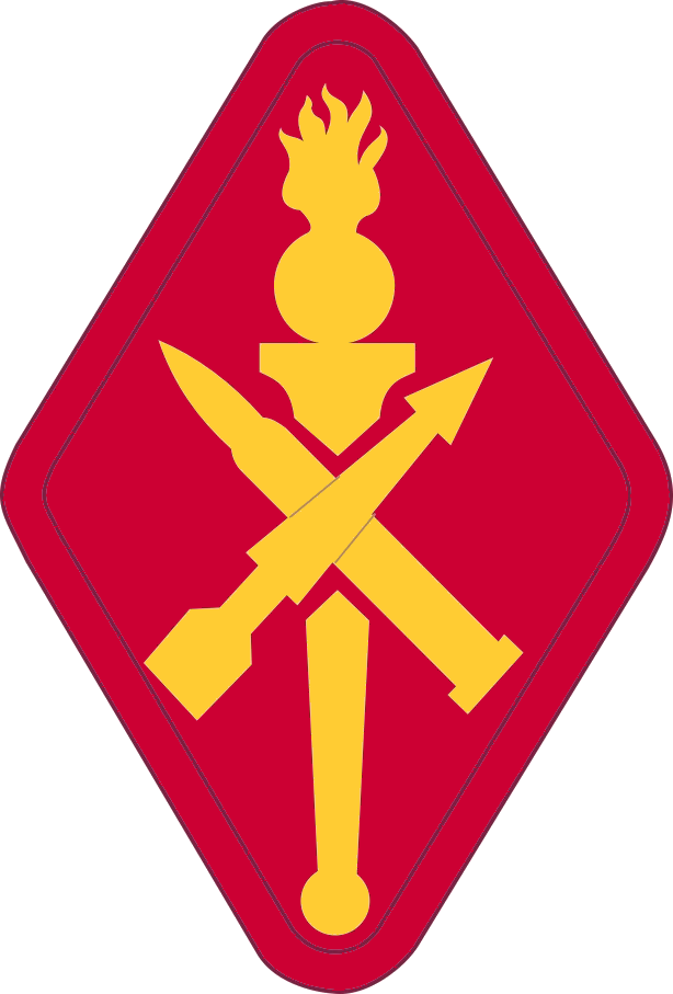 Shoulder sleeve insignia of the United States Army Ordnance Missile and Munitions Center and School